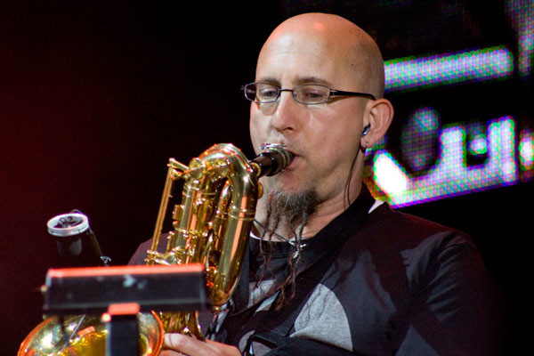 Dave Matthews Band (3/10/2008) - Pepsi Music Festival, Club Ciudad de Buenos Aires - Buenos Aires (Argentina)